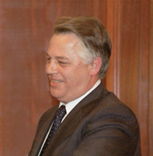 TAS 29.MOSCOW,RUSSIA. MARCH 18. President Vladimir Putin (R) pictured shaking hands with the leader of the Ukrainian Comminists Pyotr Simonenko prior to the talks on Monday in the Kremlin (Photo ITAR-TASS/Sergei Velichkin, Vladimir Rodionov) ----- ТАС 77 Россия, Москва, 18 марта. Президент России Владимир Путин (на снимке справа) провел сегодня в Кремле встречу с лидером украинских коммунистов Петром Симоненко (слева). В ходе встречи рассматривался вопрос о социальной защищенности граждан Украины, работающих на территории России. Фото Владимира Родионова и Сергея Величкина (ИТАР-ТАСС)